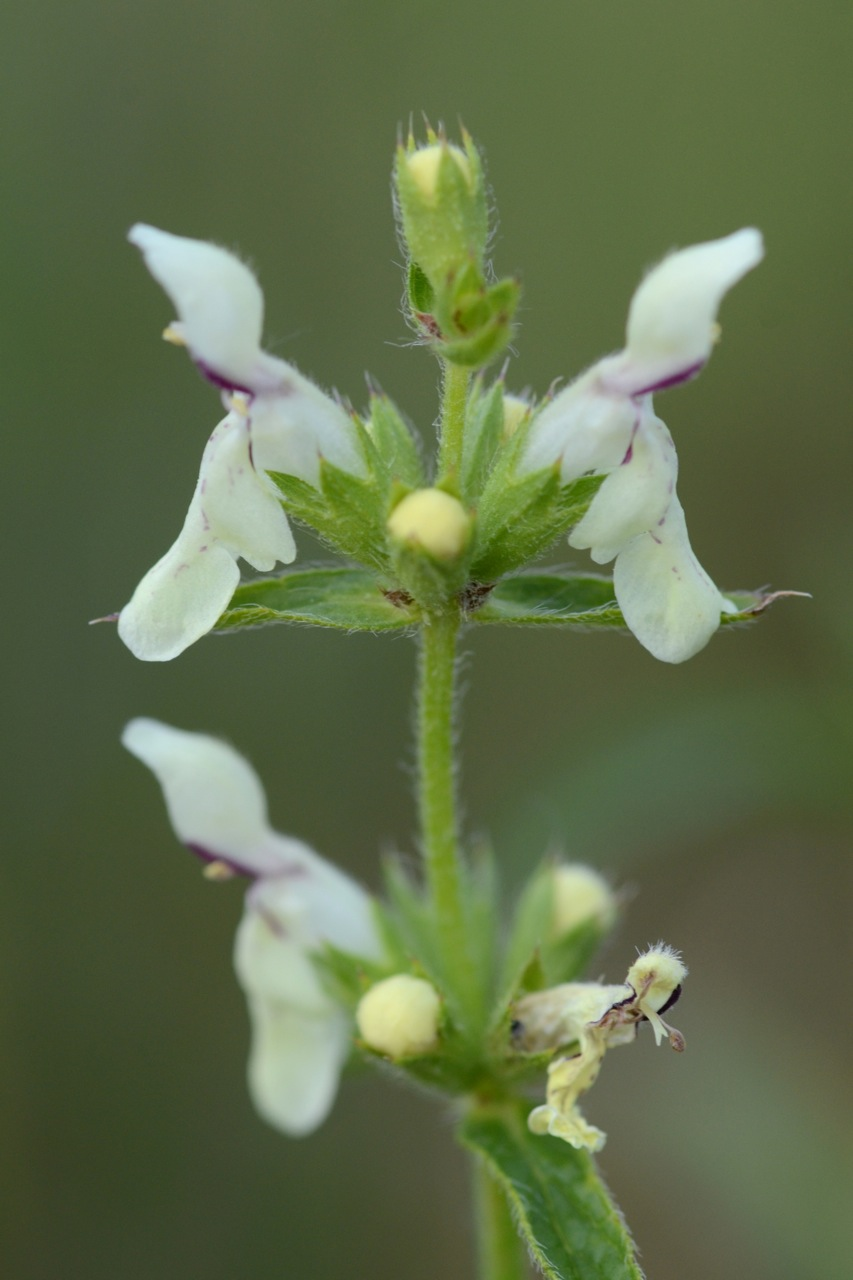 Stachys recta